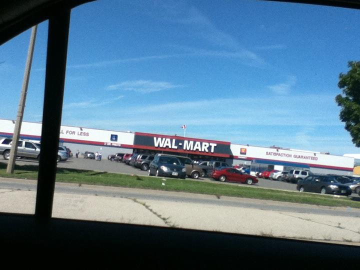 walmart in canada